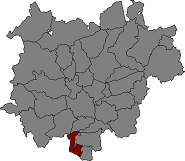 Location of Marganell in Bages